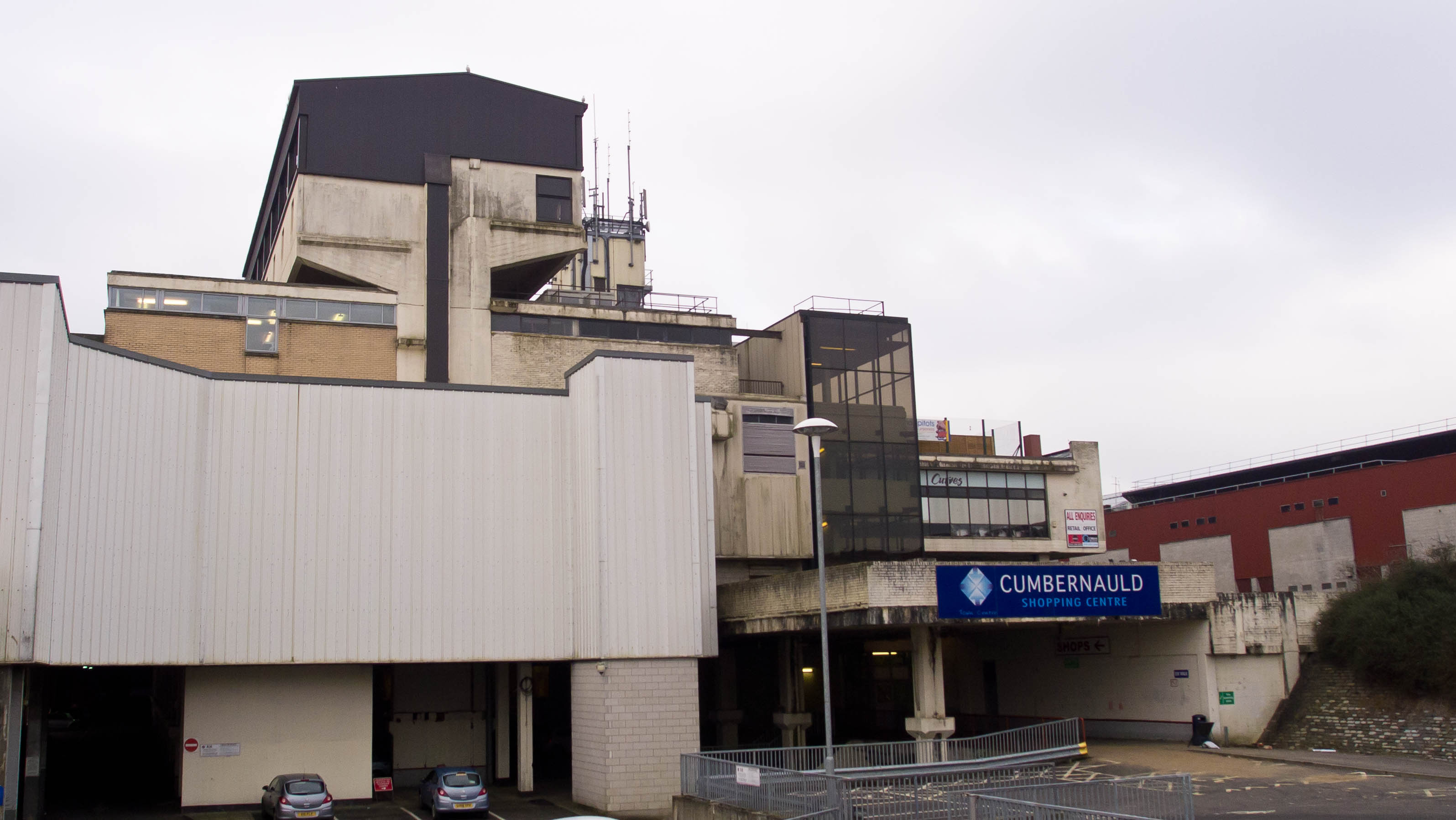 Cumbernauld Shopping Centre